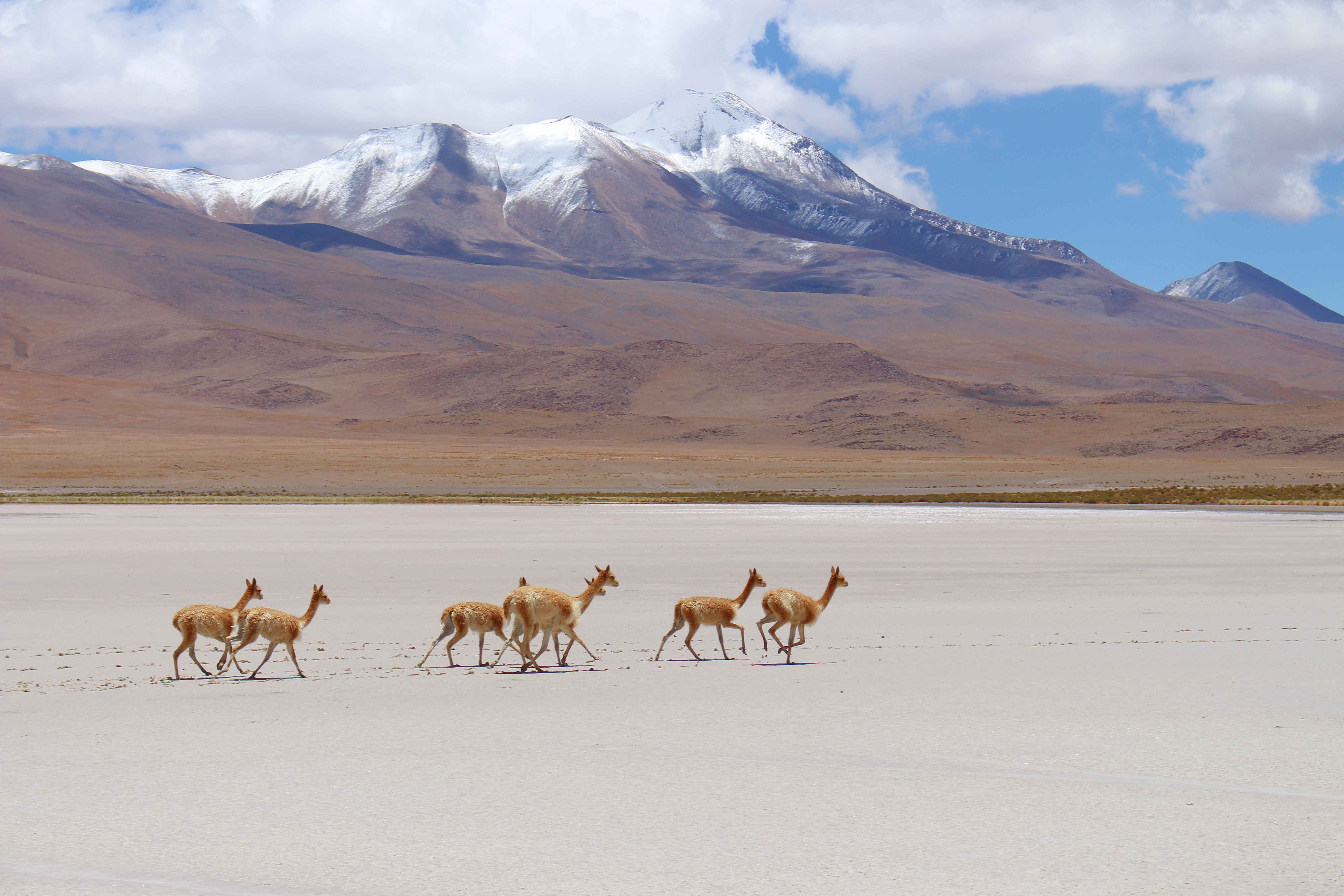 VicunaSalarDeUyuni_20170503